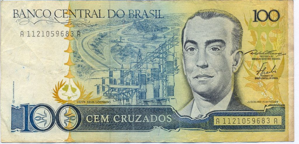 Obverse of a Brazilian 100 cruzados banknote. The banknote featuring Juscelino Kubitschek 21st president of Brazil, initiator behind building a new capital city of Brasilia in just 41 months. Background: electric power station and roads.